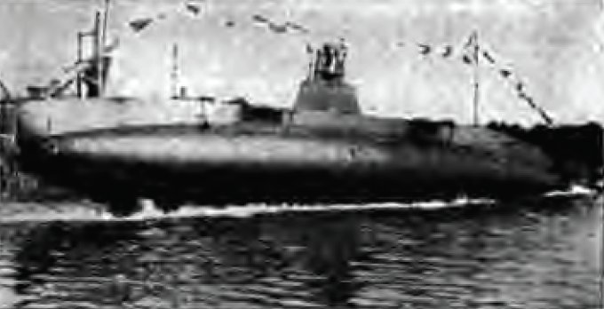 Launch of USS D-3 "Salmon" in 1910